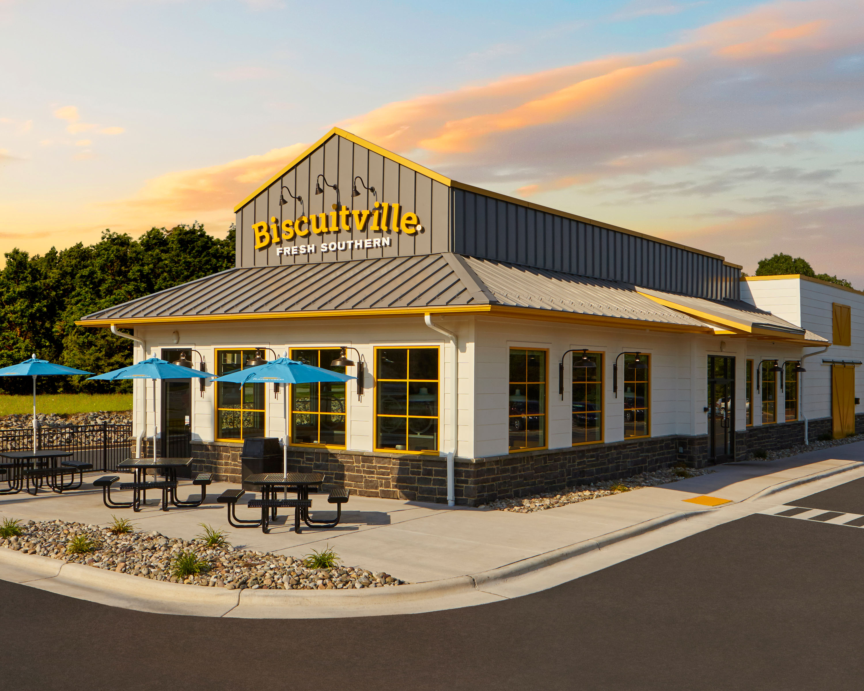 Locally and family-owned since 1966